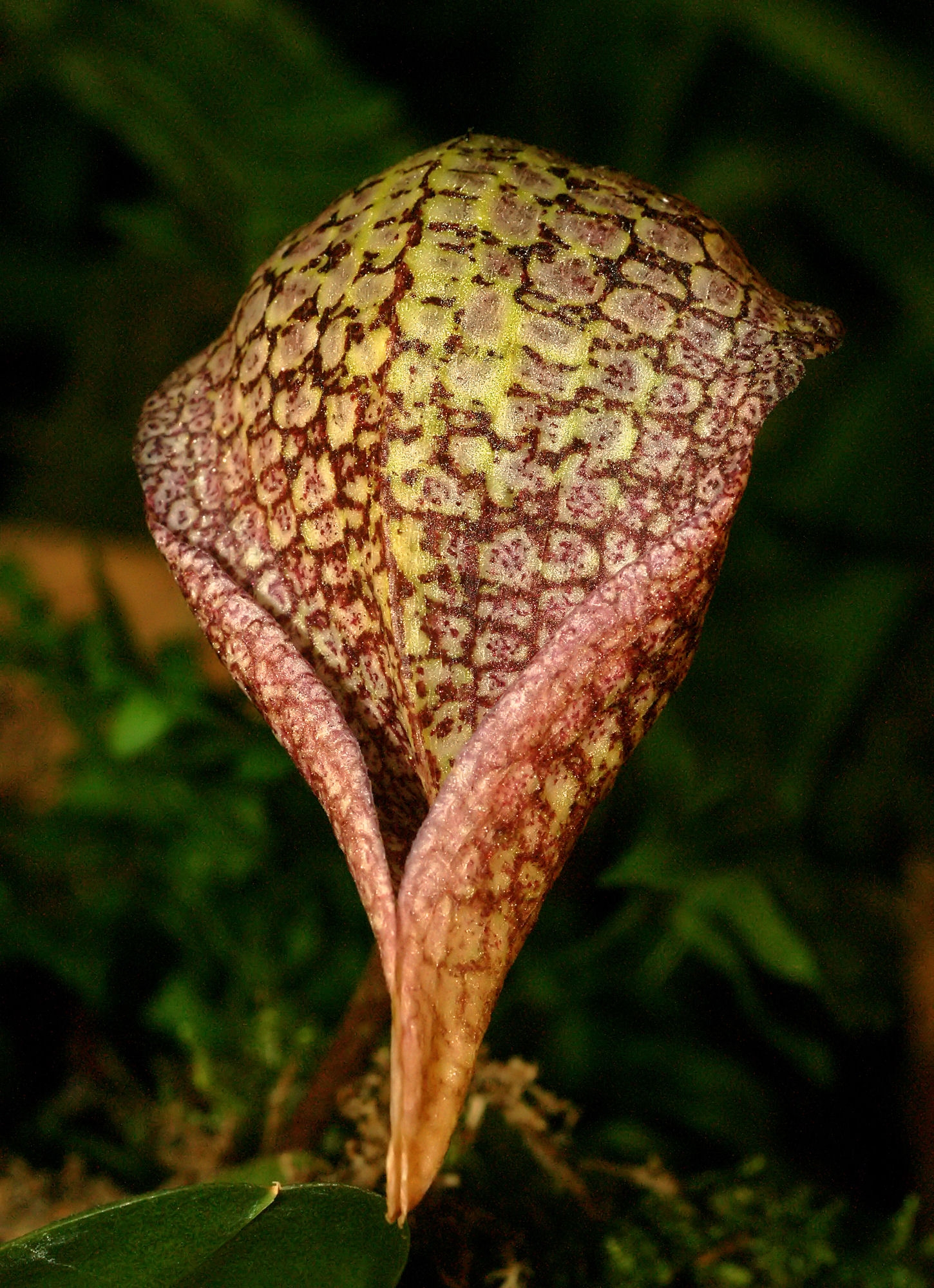 Bulbophyllum arfakianum